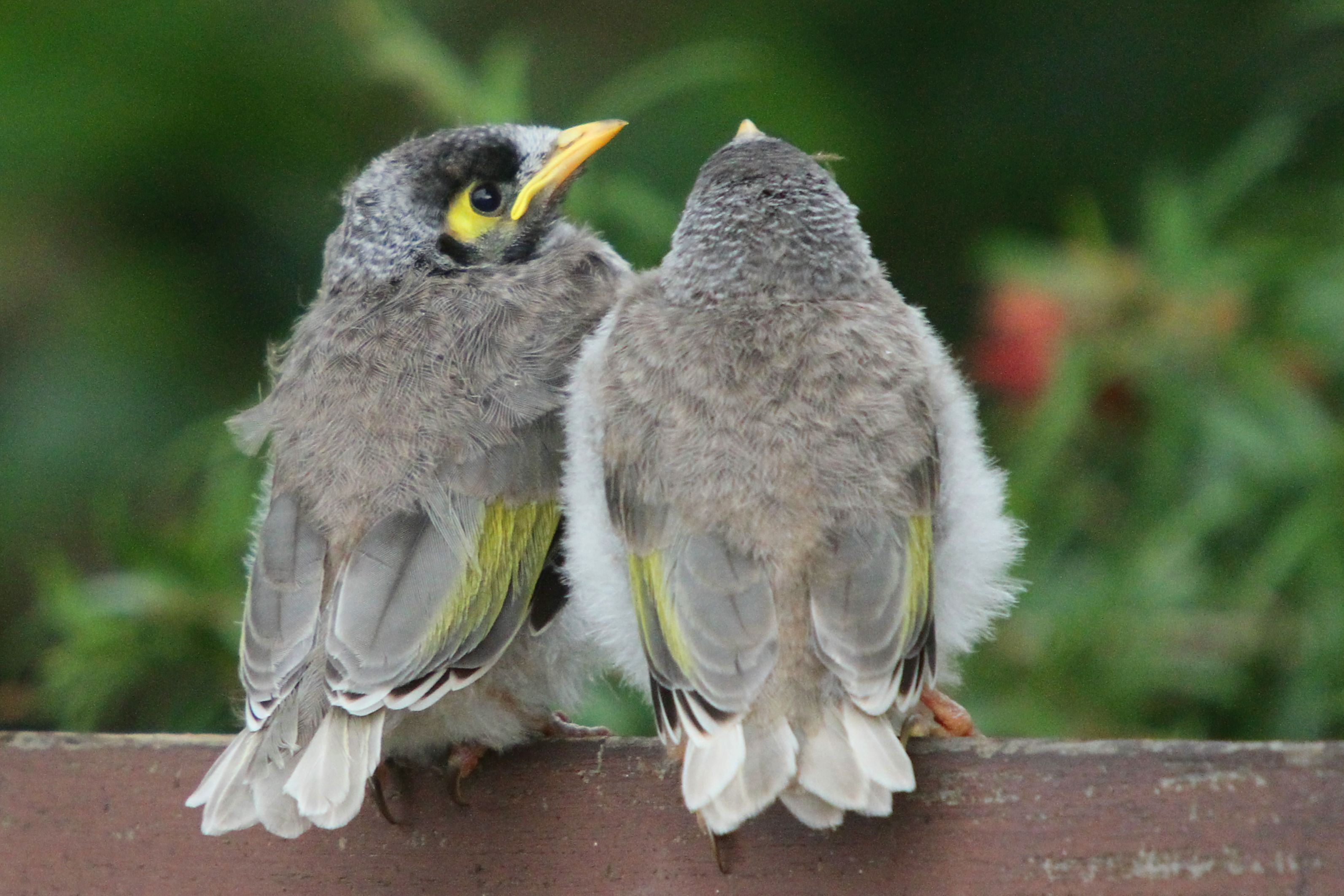 Noisy Miner fledglings huddle together